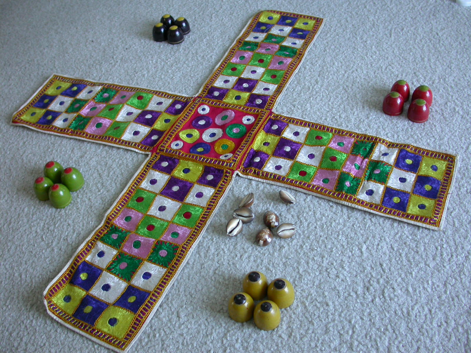 Indian game of Chopat